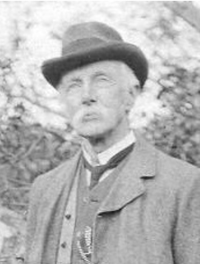 George Vaughan Hart of Howth, County Dublin